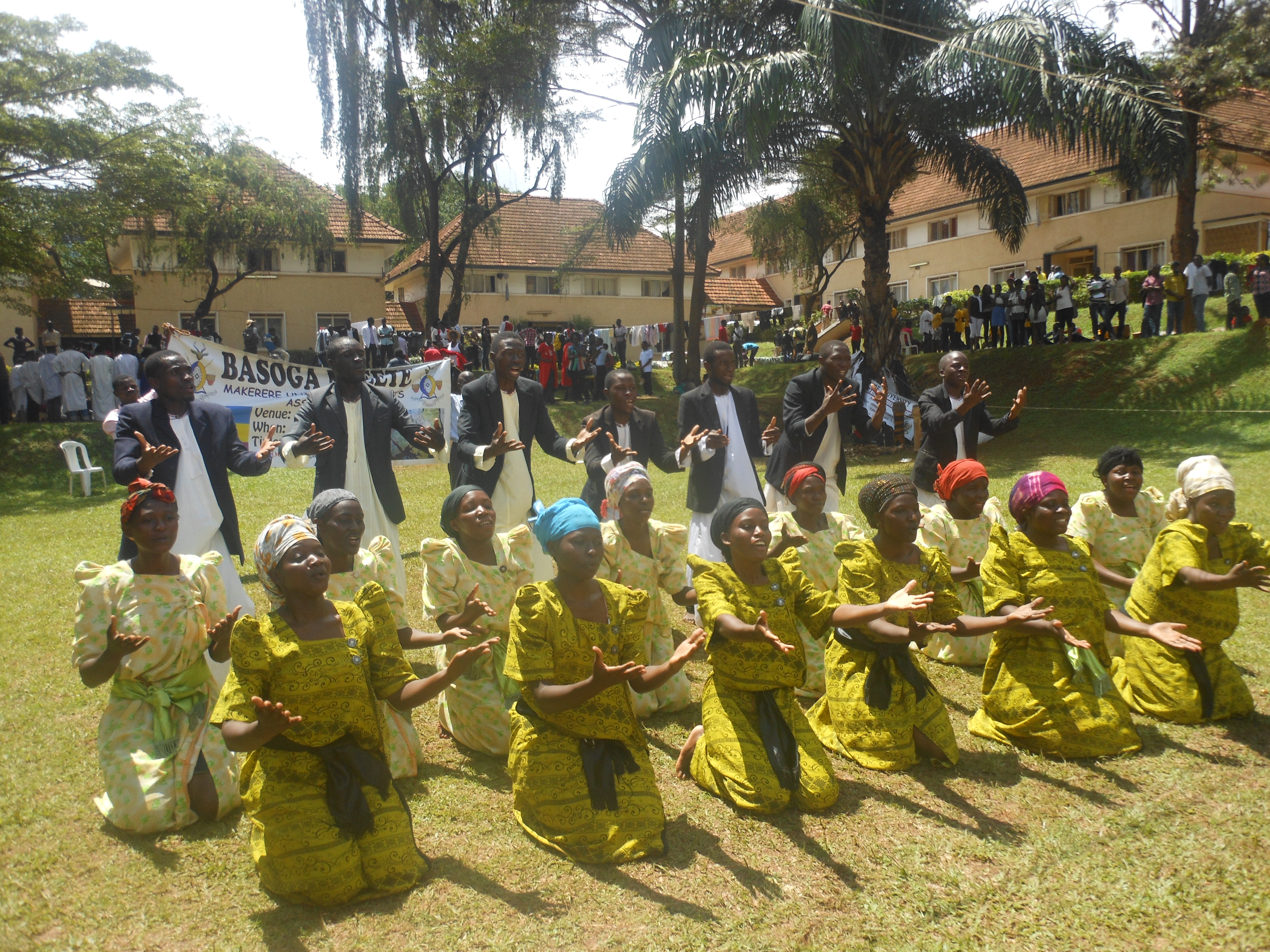 The Basoga dressed in Kanzu and gomasi for a poem This is an image of Cultural Fashion or Adornment from Uganda